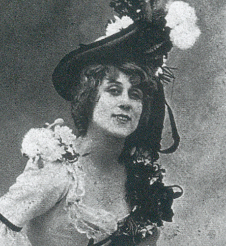 Jane Avril